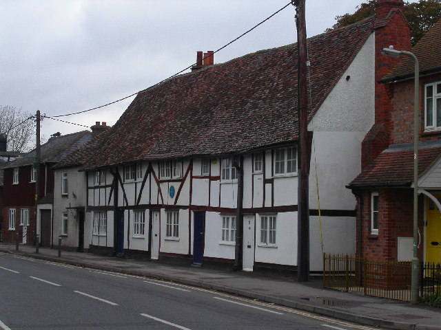 Cottages, Crowmarsh Gifford. Jethro Tull, inventor of the horse-drawn seed drill, lived here 1700-1710.